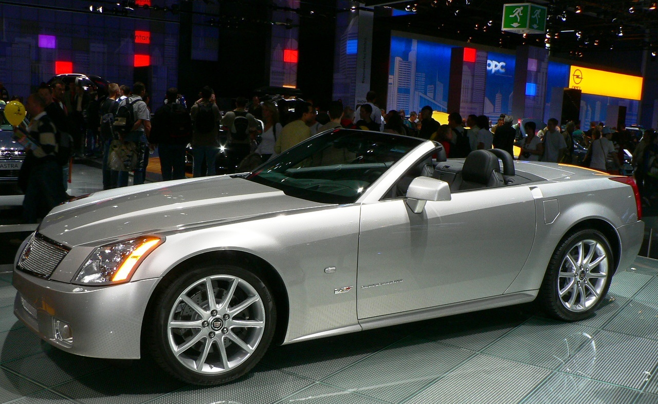 Cadillac XLR at the 2006 Paris Motor Show